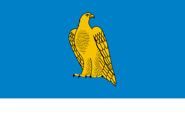 Beloretsk rayon (Bashkortostan), flag